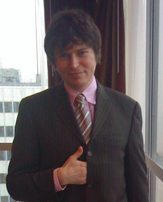 Photo of Maciej Stachowiak taken in Boston in 2009.